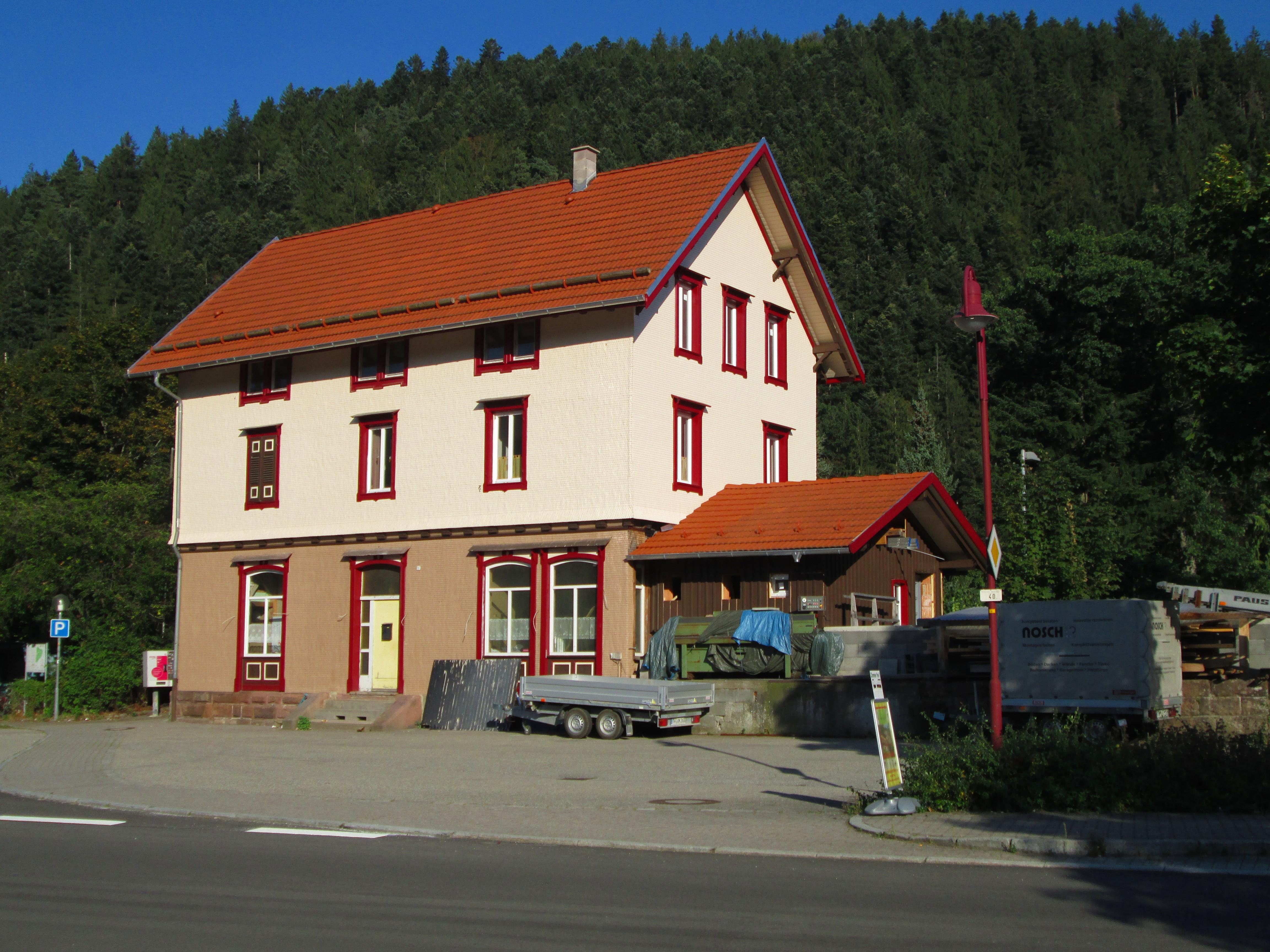 Schenkenzell train station main building